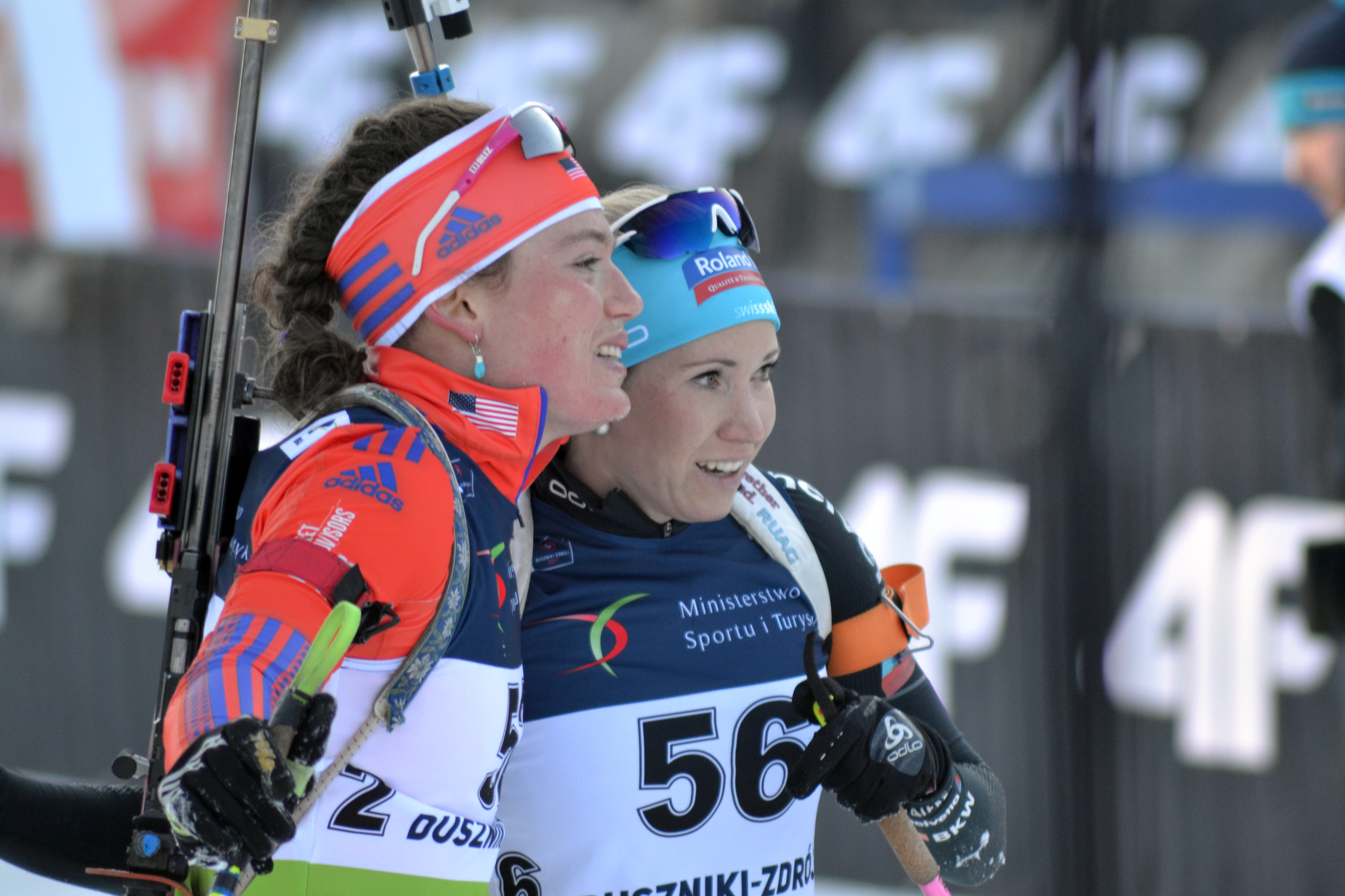 Open European Championships Biathlon 2017, Sprint Women's race, held on January 27th.